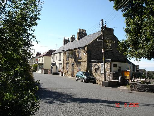 Gronant. Village centre at Gronant, local public house the Gronant Inn and Post Office